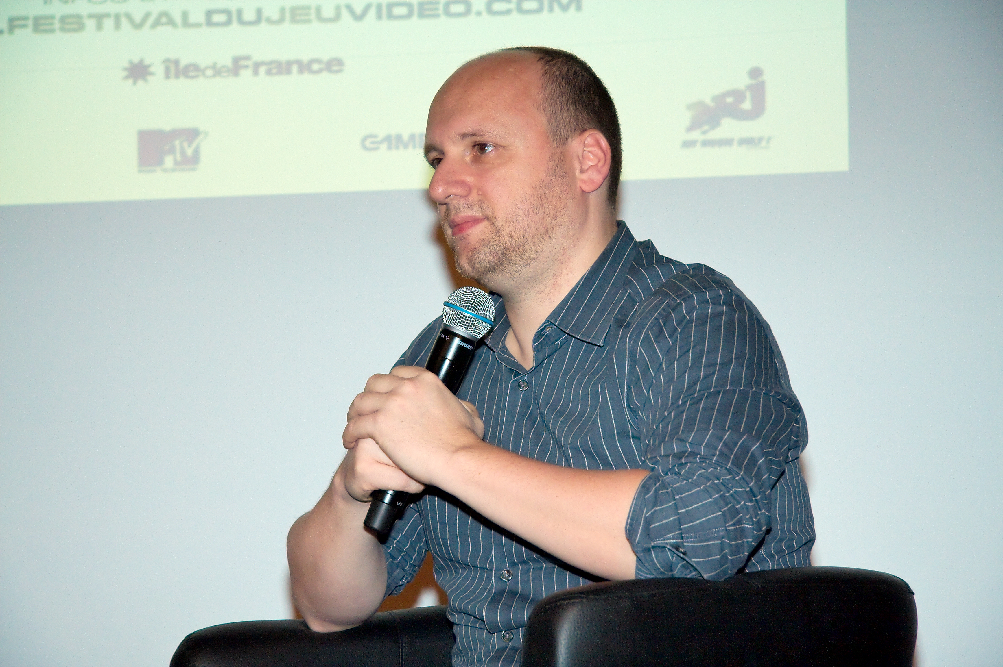 Conference with David Cage at Festival du jeu vidéo 2008 (Paris, France).